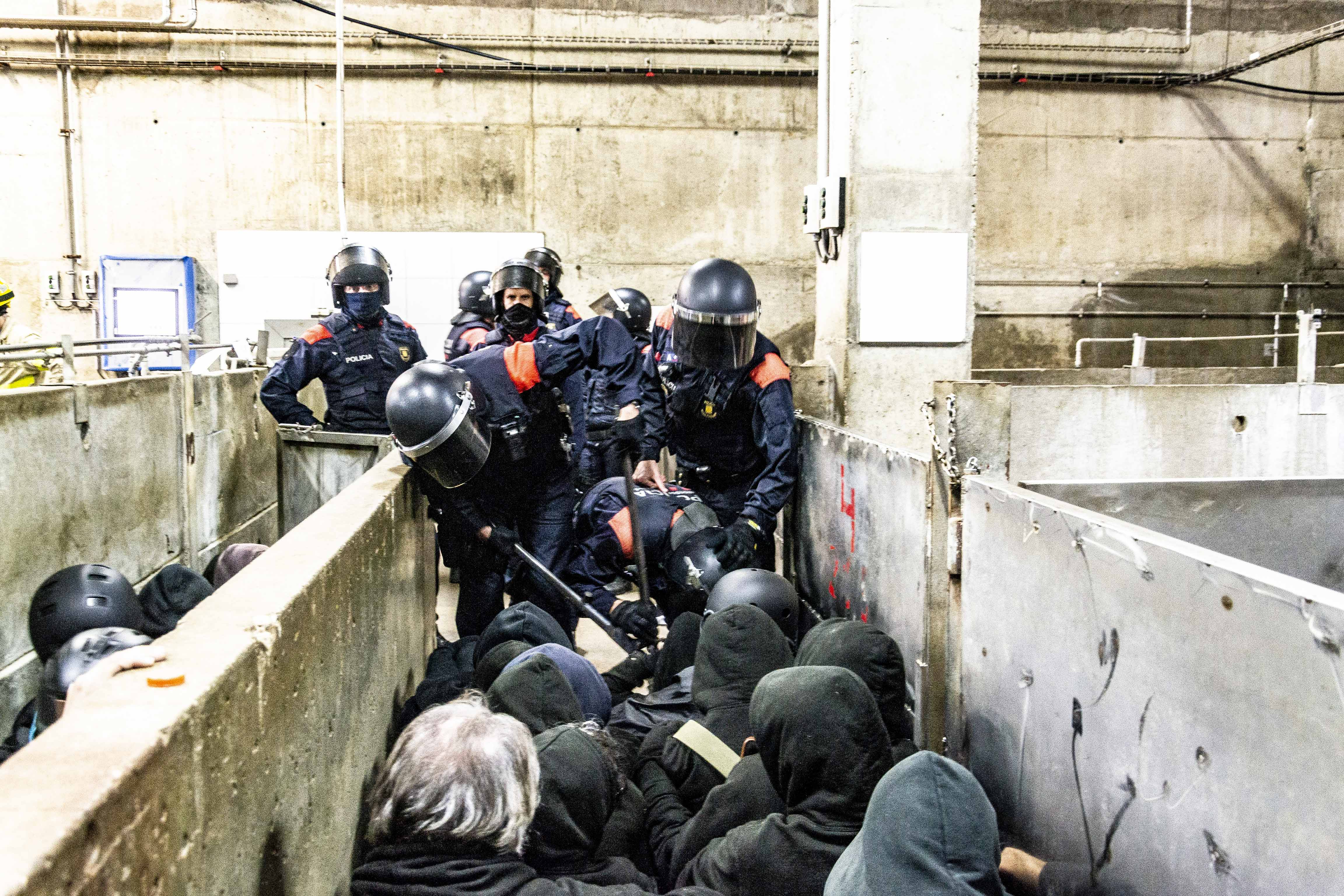 Evacuation of the demonstrators of the collective 269 libération animale by the Spanish police during the blockade of the Friselva slaughterhouse in Girona (Spain) on April 16, 2019.